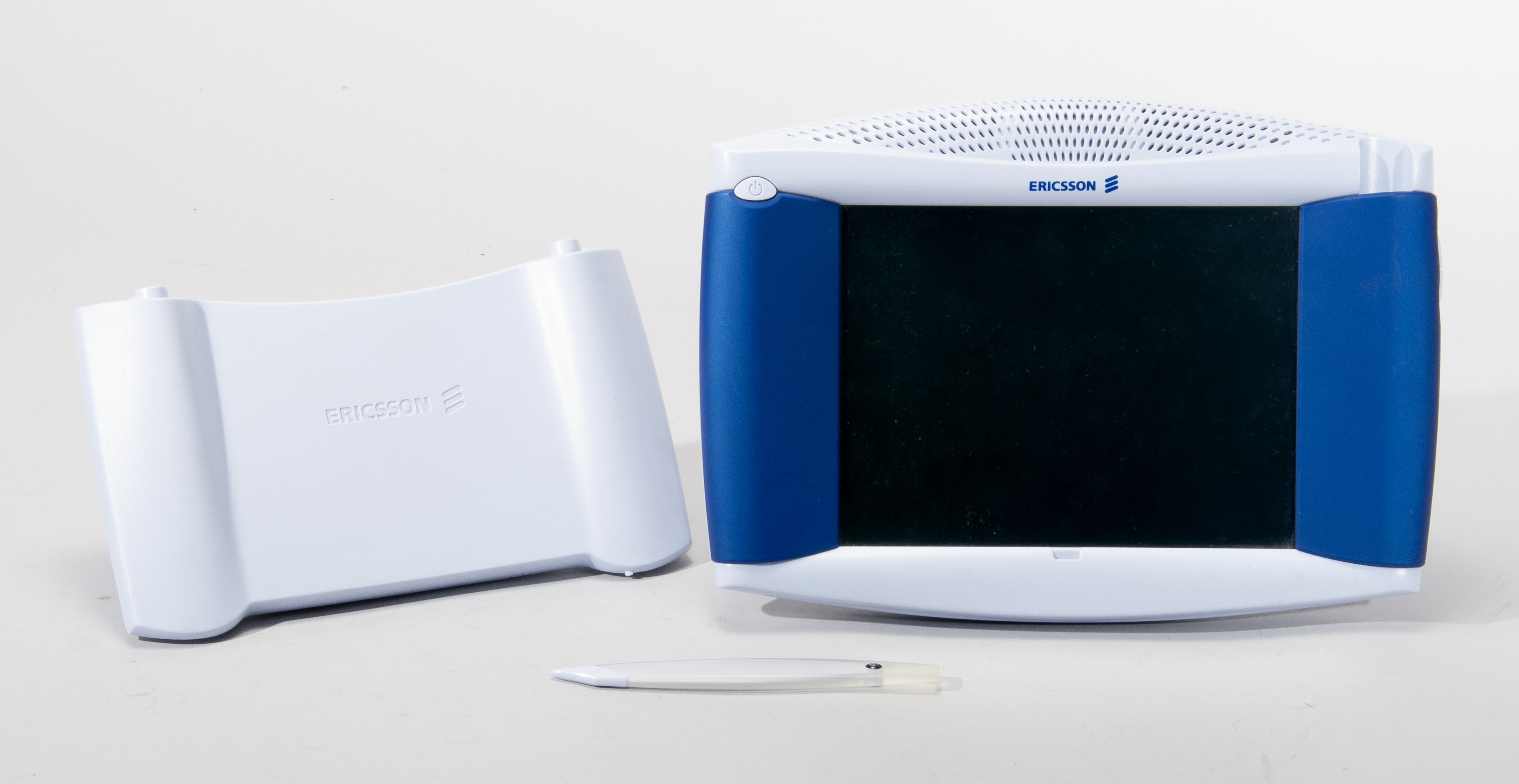 Photo of the Ericsson H610 surf tablet manufactured in 2001.